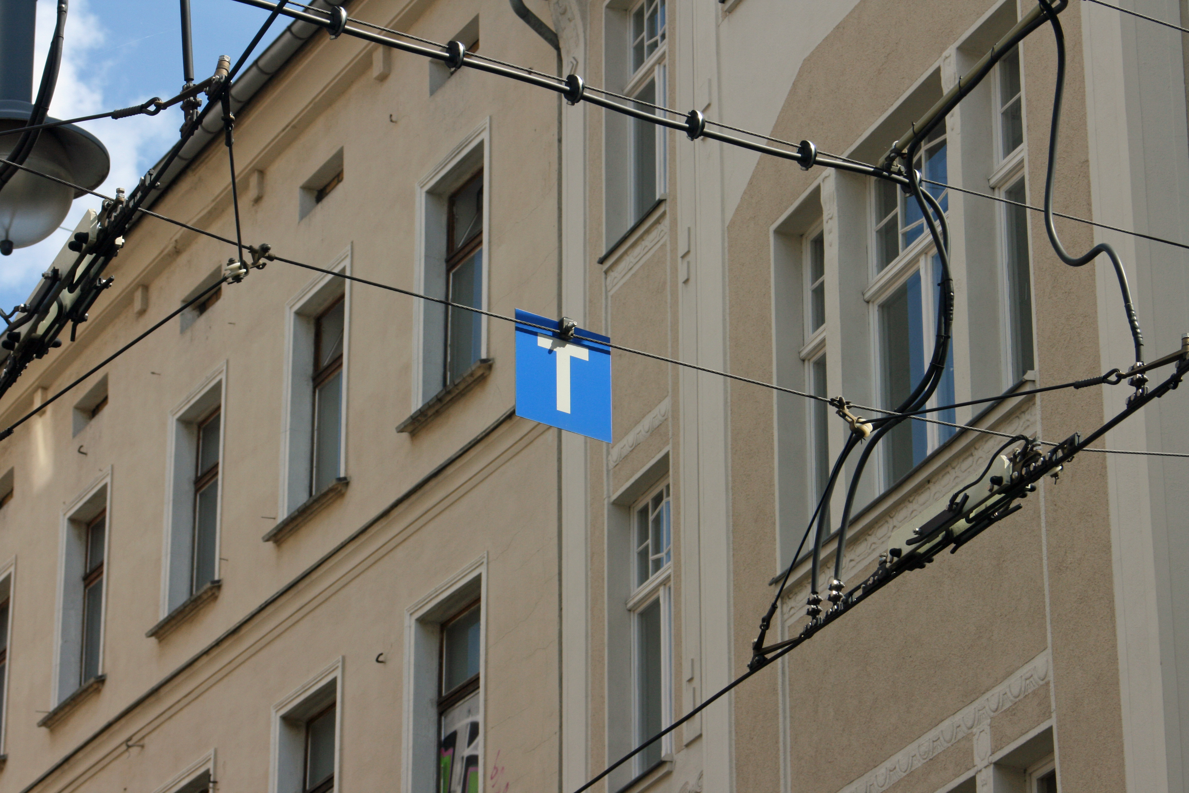 Tram signs in Germany: St 7 with insulators left and right